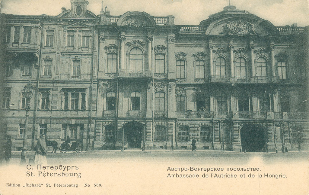 Embassy of Austria-Hungary in Saint Petersburg (Boutourlina House; build. in 1857-60 by project of Harald Julius von Bosse (fr)). 1910s old postcard. Contemp. address: build. 10 by Tchaikovsky (form. Sergievskaya) Street